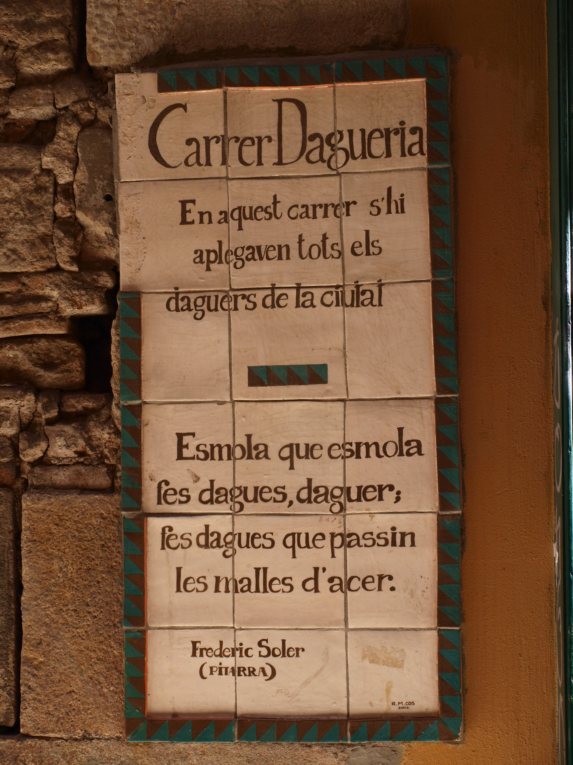 Catalonias living poet - Citation of Frederic Soler (Serafi Pitarra) in the street La Dagueria in Barcelona.